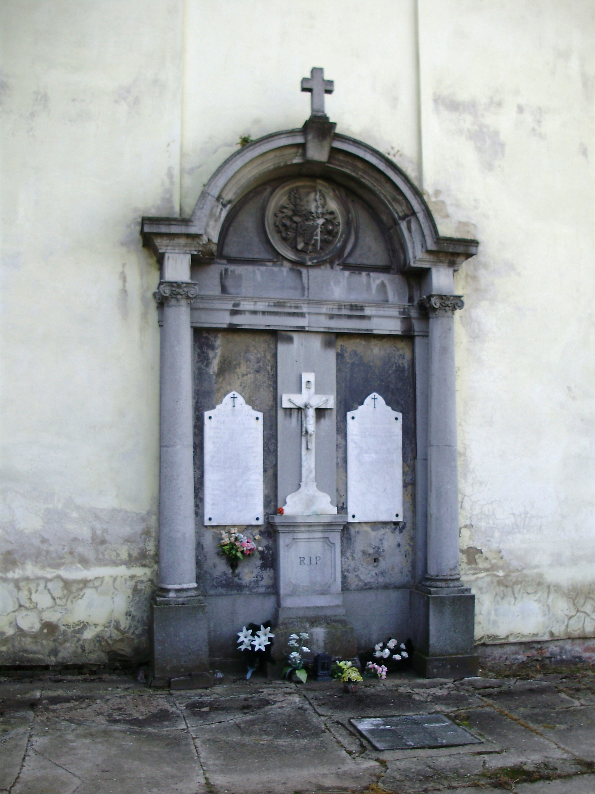 Vault of the Manner family in Bohdalice, Vyškov District, South Moravian Region, Czech Republic